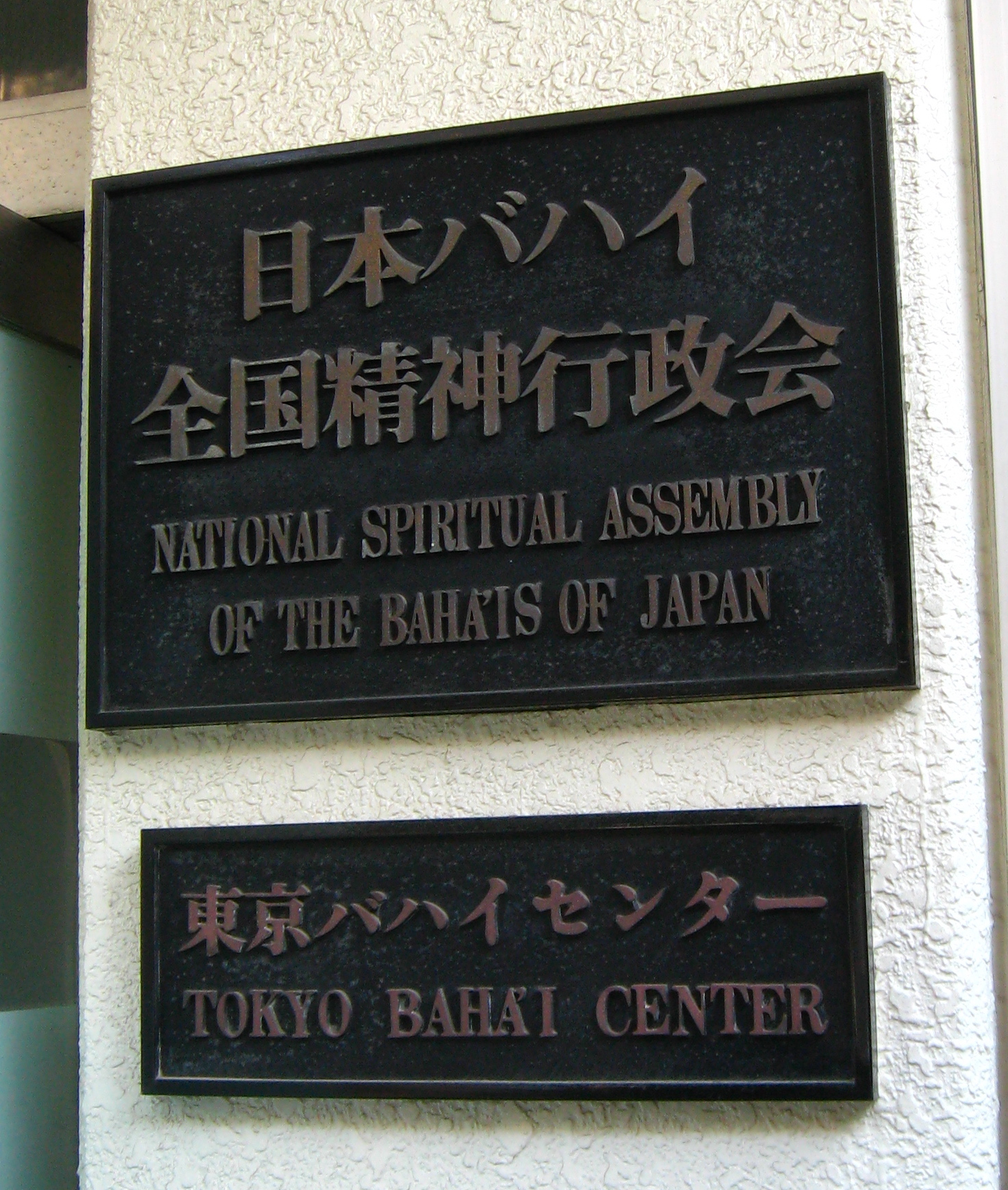 A sign outside the Tokyo Baha'i centre, Shinjuku Ward, Tokyo, the office of the National Spiritual Assembly of the Baha'is of Japan.